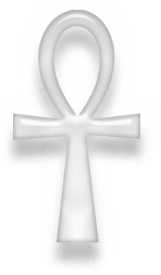 Symbol of Kemetism, white version.